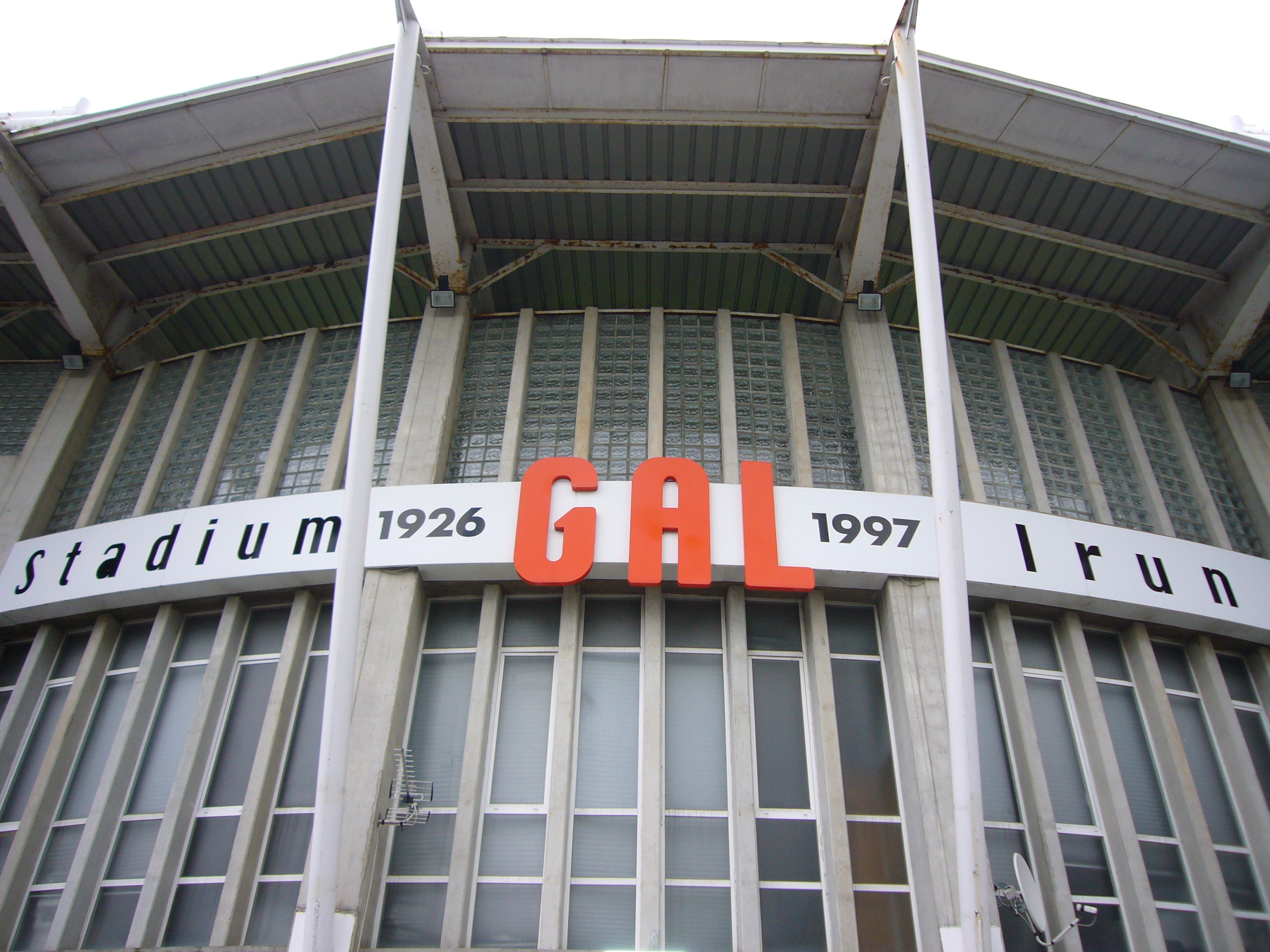 Stadium Gal in Irun, Guipúzcoa, Spain. It plays its home games on Real Unión Club.